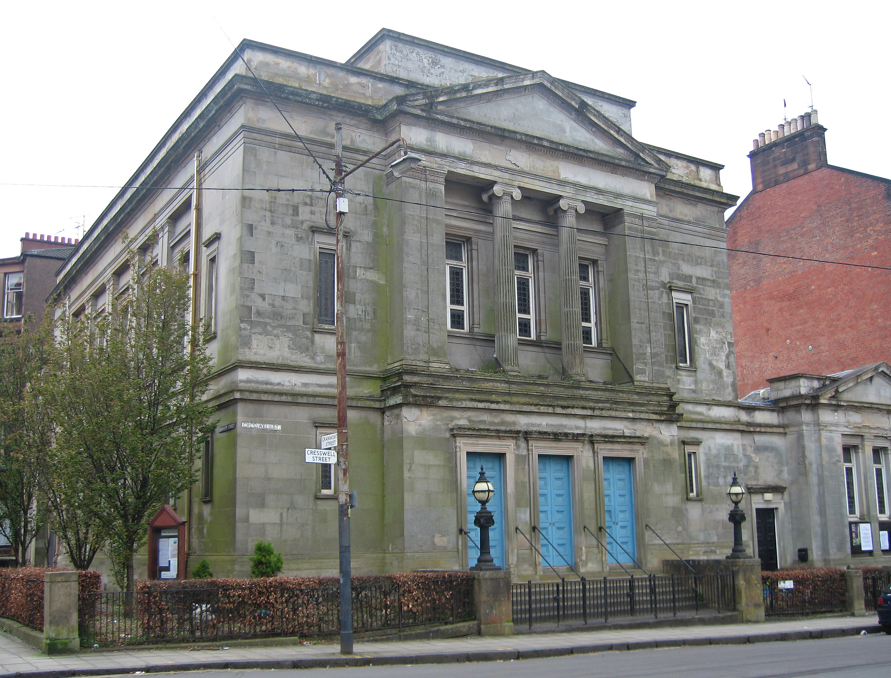 Front entrance of Hillhead Baptist Church, on corner of Creswell and Cranworth streets, Glasgow, Scotland